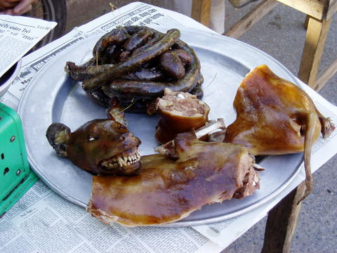 This platter was found in a street market, a few miles east of Hanoi, Vietnam.